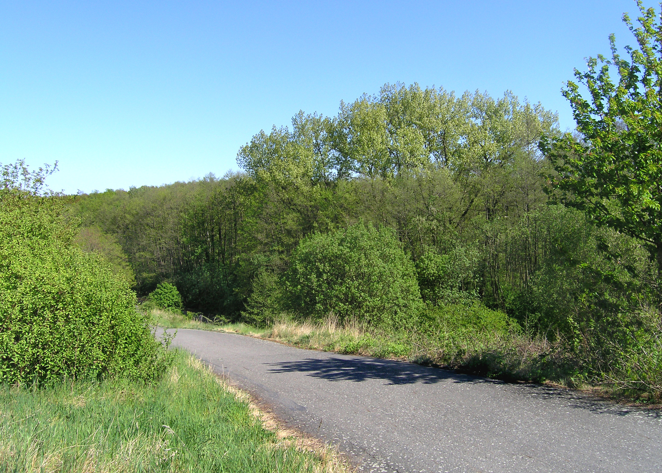 Milíčovský forest, Prague. View from Milíčovský hill